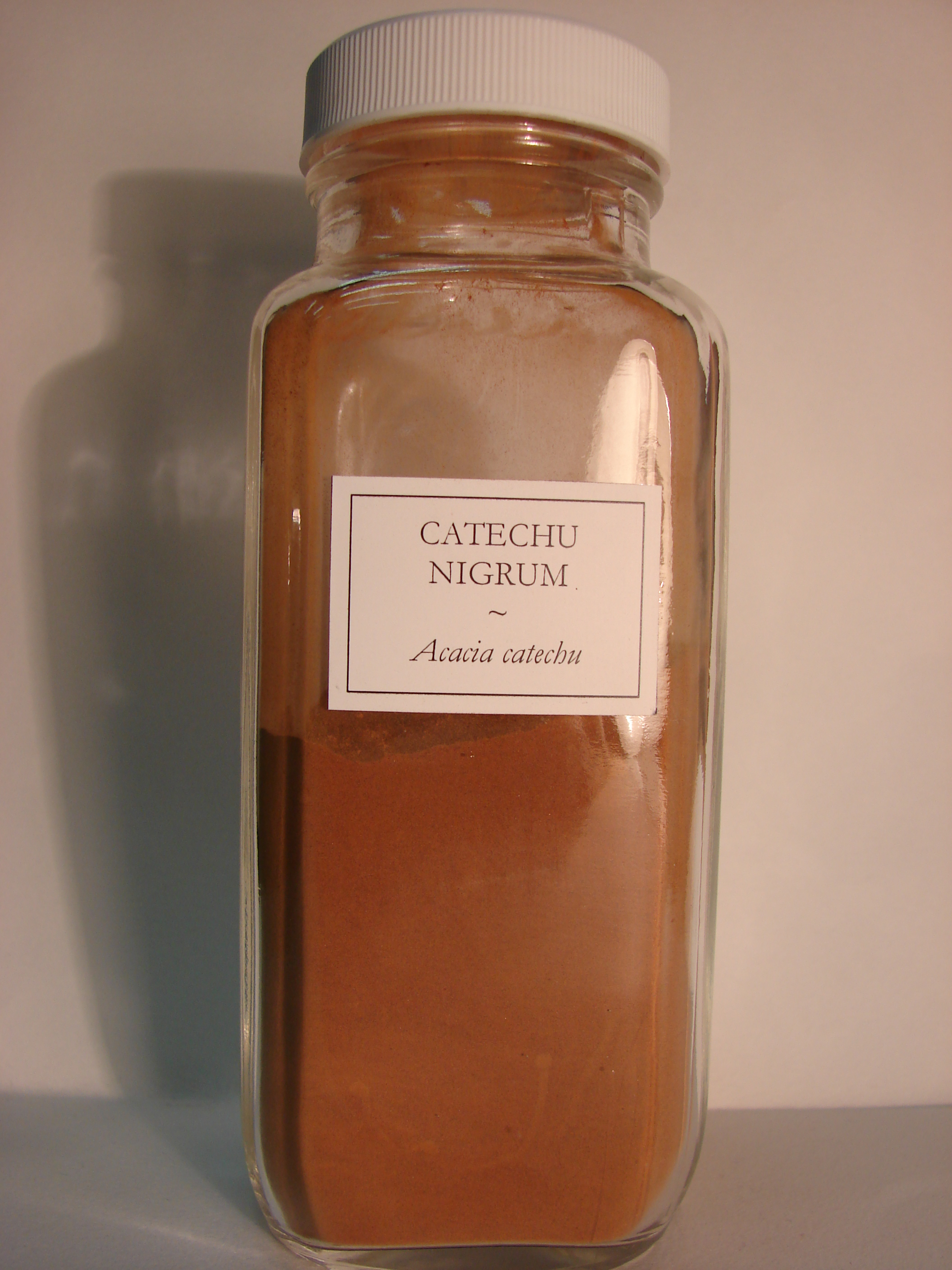 Catechu nigrum, Acacia catechu